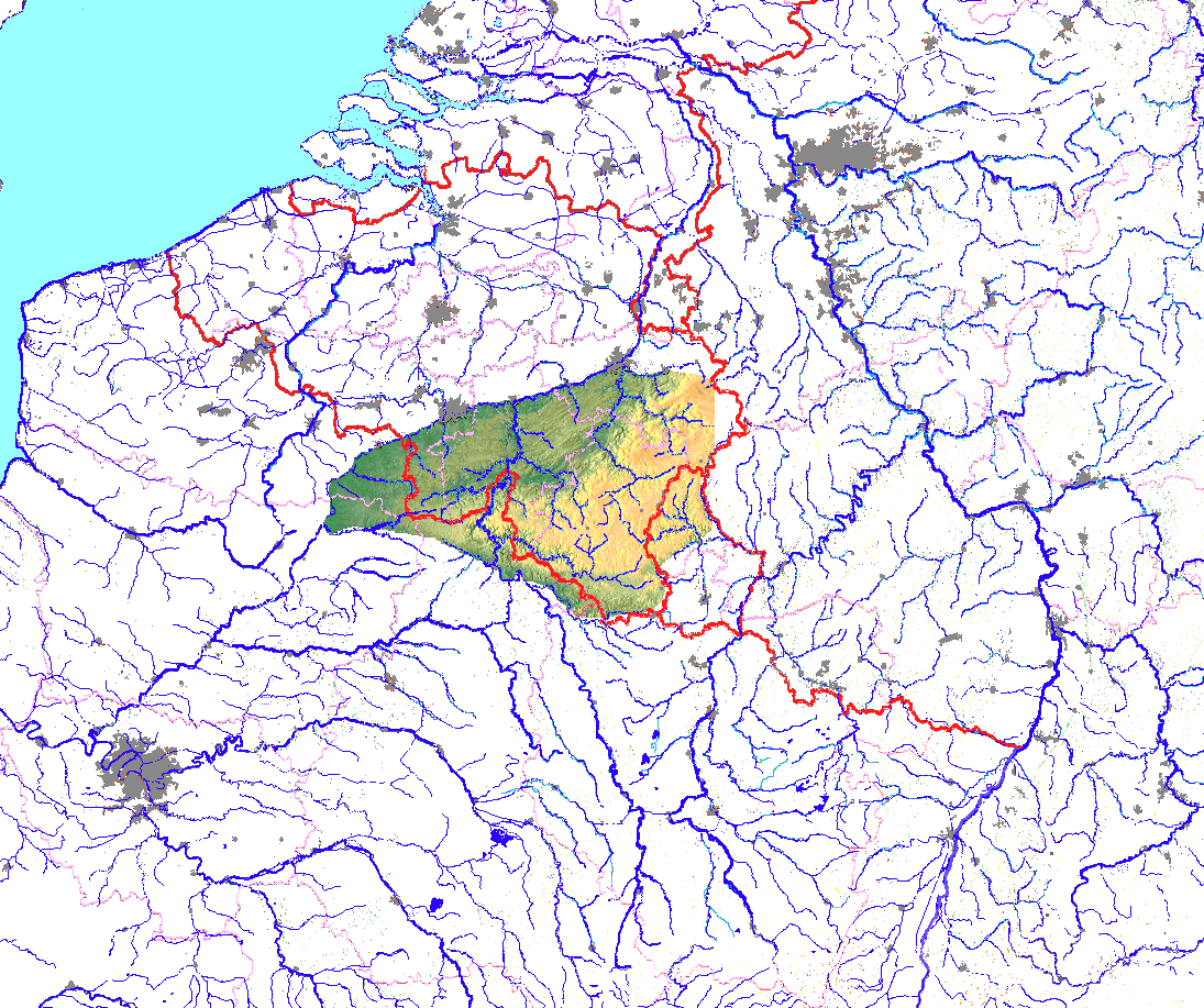 Location of Ardenne mountains, lecel coloured, in Belgium, France and Luxembourg